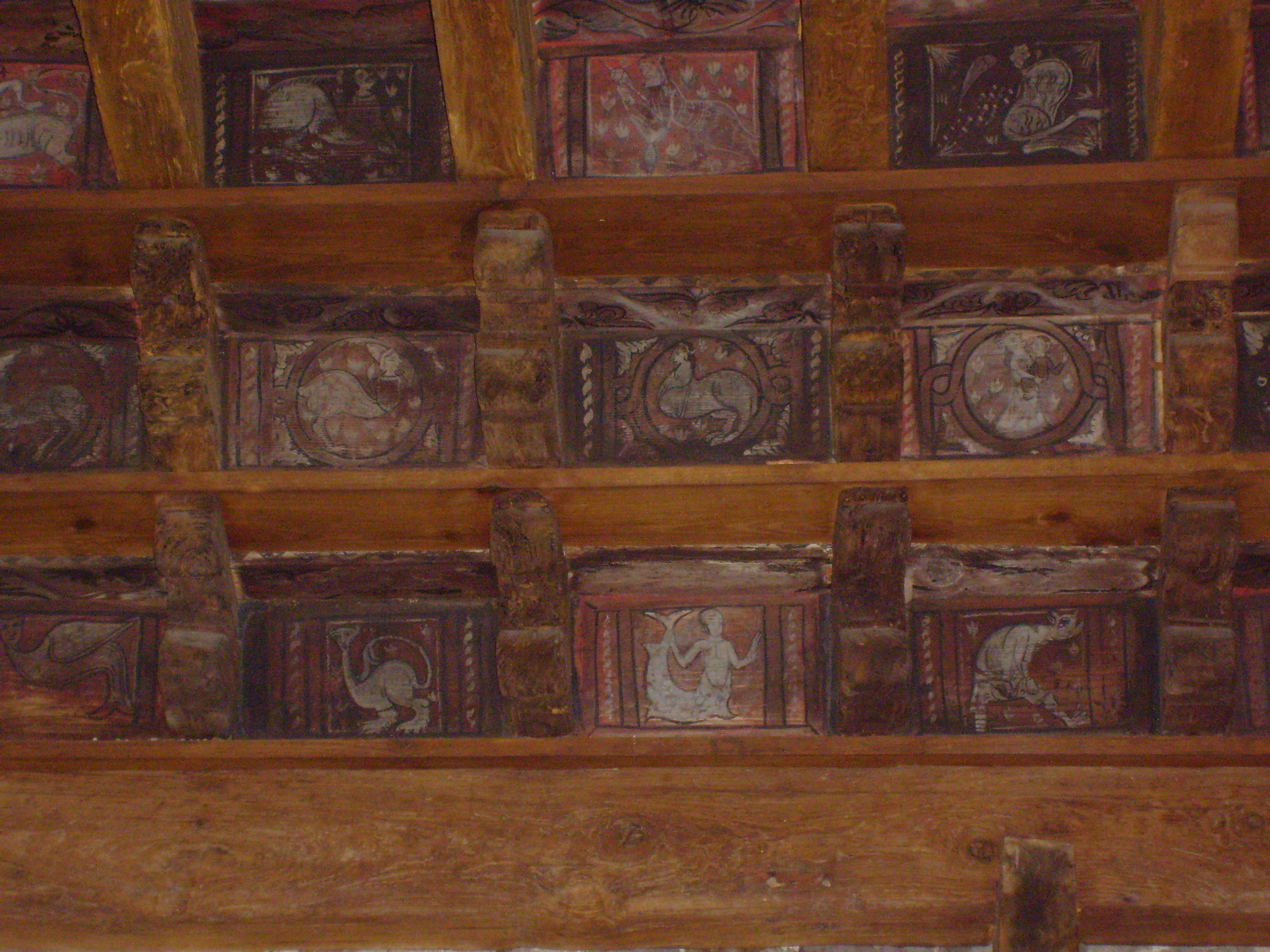 14th century paintings of people, animals and mythical creatures on the ceiling of the cloister of Frejus Cathedral, France